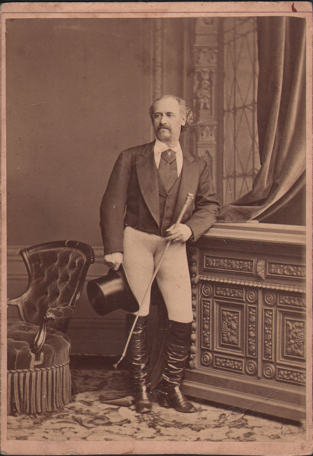 Italian-born Gaetano Ciniselli (1815−81) was the head of a large circus family, a circus equestrian, and a horse trainer who was taught by the famous French riding master François Baucher (1796−1873). He achieved fame throughout Europe and in 1877 founded and became director of the Ciniselli Circus in Saint Petersburg, which was housed in the first stone structure in Russia purpose-built for circus. He brought to the Saint Petersburg public all of the best performers and pantomimes of Europe. This portrait of Ciniselli was taken by Charles Bergamasco (1830−96), the world famous imperial photographer who was active in the Russian capital in the 1860s−1870s. Bergamasco was born in northern Italy and moved to Saint Petersburg in the 1840s with his mother, a painter. He started as an actor at the French Theater in Saint Petersburg but became interested in the new daguerreotype process, which he studied for a time in Paris. He returned to Saint Petersburg where he opened his own studio. Bergamasco won numerous prizes and became famous for his photographs of European royalty, including Tsar Alexander III and Queen Victoria. The photograph was a gift to the Bolshoi Saint Petersburg State Circus (successor to the Ciniselli Circus) by Carolina Ciniselli, one of the three daughters of Gaetano Ciniselli, all of whom were circus equestriennes. Ciniselli, Gaetano, 1815-1881; Circus; Circus Ciniselli; Circus performers; Entertainers; Horsemanship; Portrait photographs; Portraits